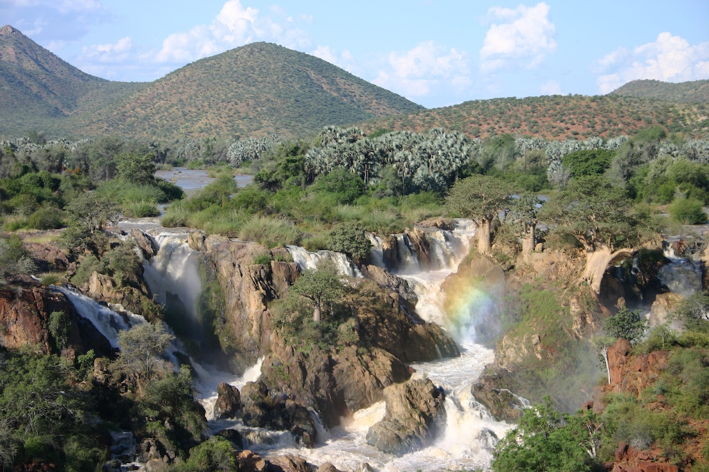 Epupa Falls, Cunene River on the border of Angola and Namibia.